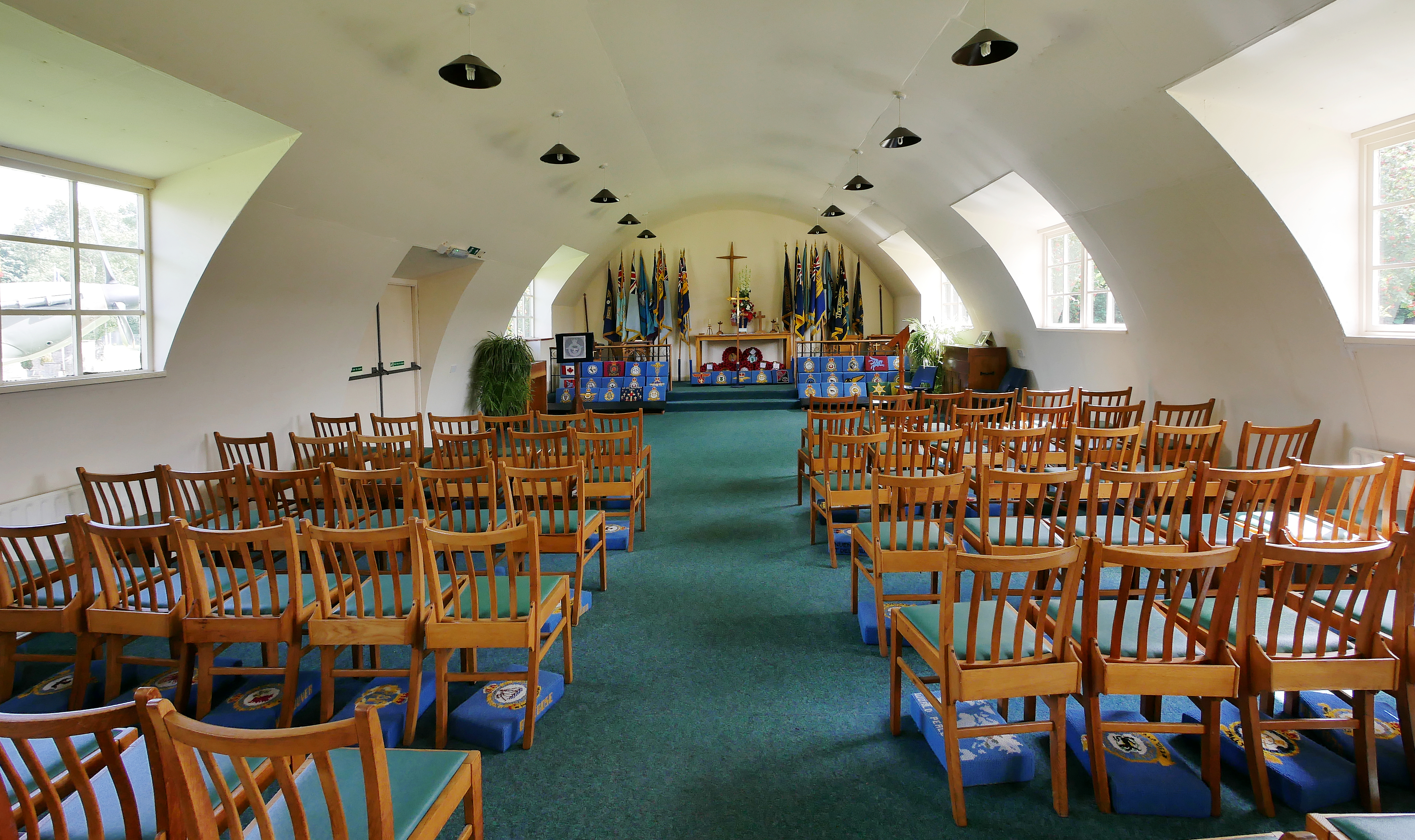 Chapel interior in a Nissen hut at the former RAF Elvington, North Yorkshire, now Yorkshire Air Museum